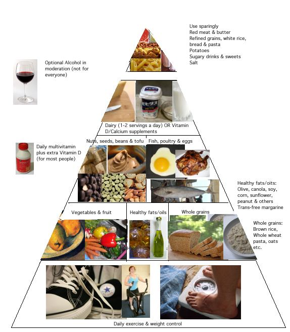 Healthy eating pyramid similar to that of the Department of Nutrition, Harvard School of Public Health. Temporary image as original is non-commercial use only. If you have a better image please replace this. Thanks.